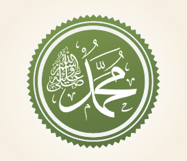 Muhammad